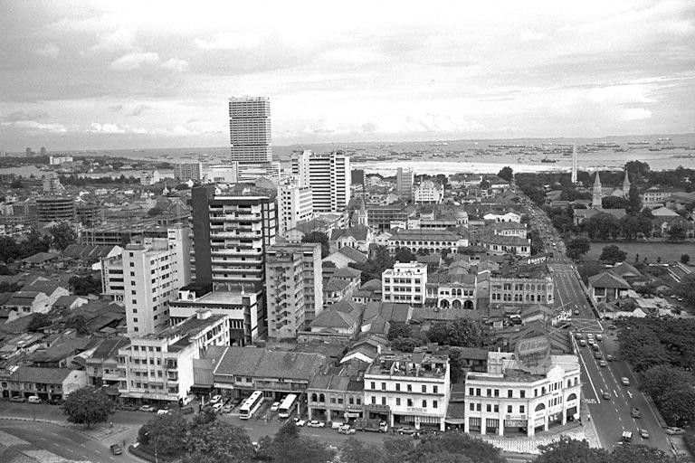 Bird's eye of Bras Basah Road from Cathay Building in 1976, with Shaw Tower in the background.